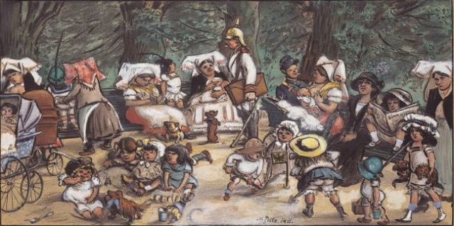 Spreewald-Ammen (Wet-nurses from Spreewald [region in East Germany]). Picture of Heinrich Zille (1911)